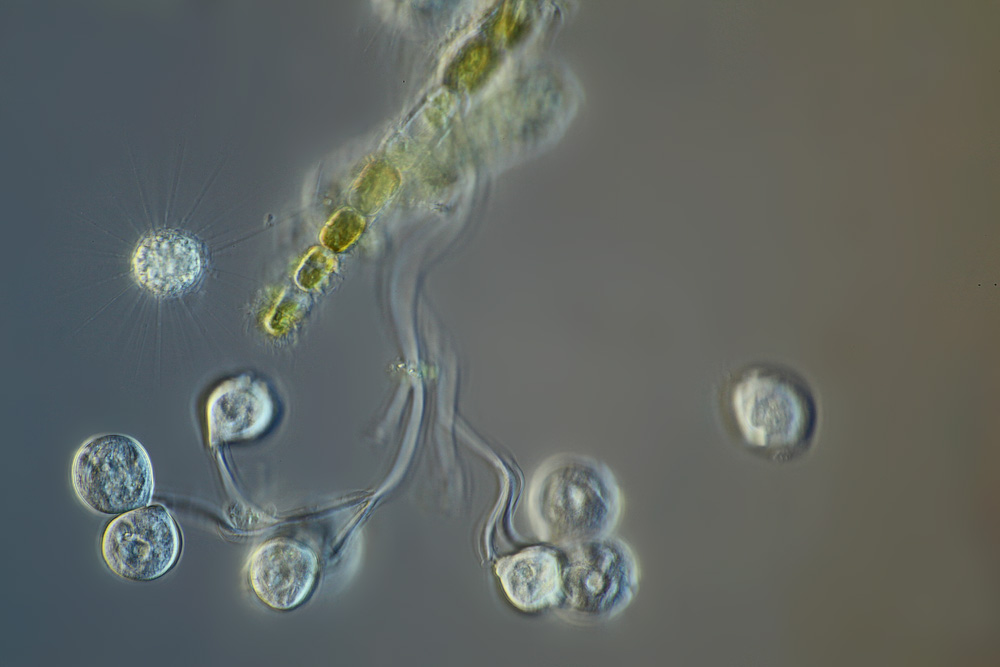 Zoothamnium is a genus of the Ciliata